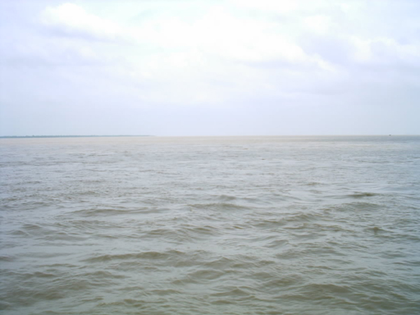 River Padma, also known as the Ganga is one of the longest rivers in Asia. This river starts from the Himalayas and falls into the Bay of Bengal by flowing through India and Bangladesh